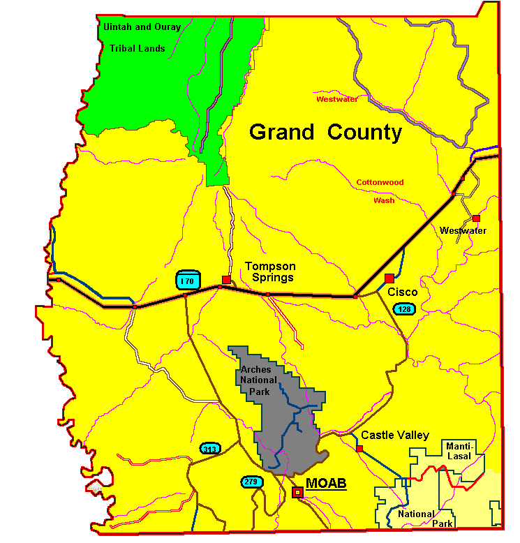 Grand County (UT),Detail, selfmade graphic by R.Blauert Dk4hb